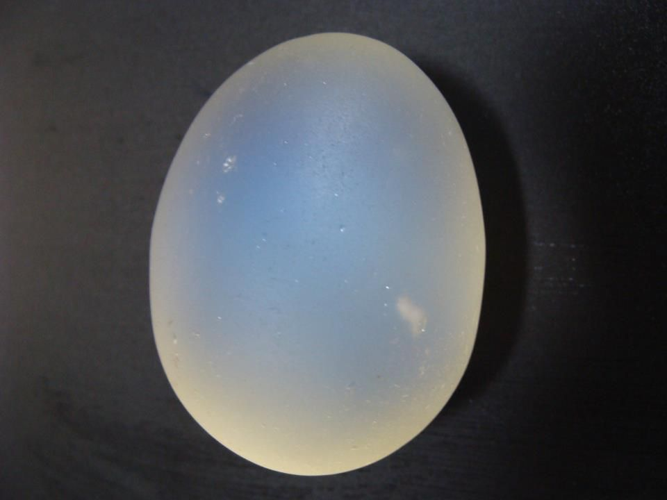 Moonstone from Africa This rare very large Moonstone stone came from the first Japanese expedition to Mt Kilimanjaro Africa in 1918. Weights 98-100 grams depending on whose scale you use, and is said to be 300-450 carat weight. Waiting for the Guinness Book of Records to confirm it's the worlds largest and highest carat moonstone in known existence.